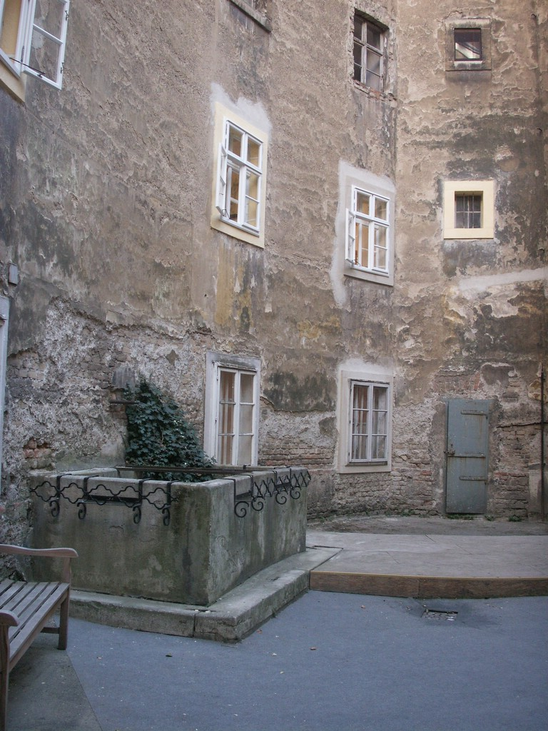 Court and well of the Narrenturm the first Lunatic asylum of the world nowadays part of the university campus of Vienna / Austria / Middle Europe